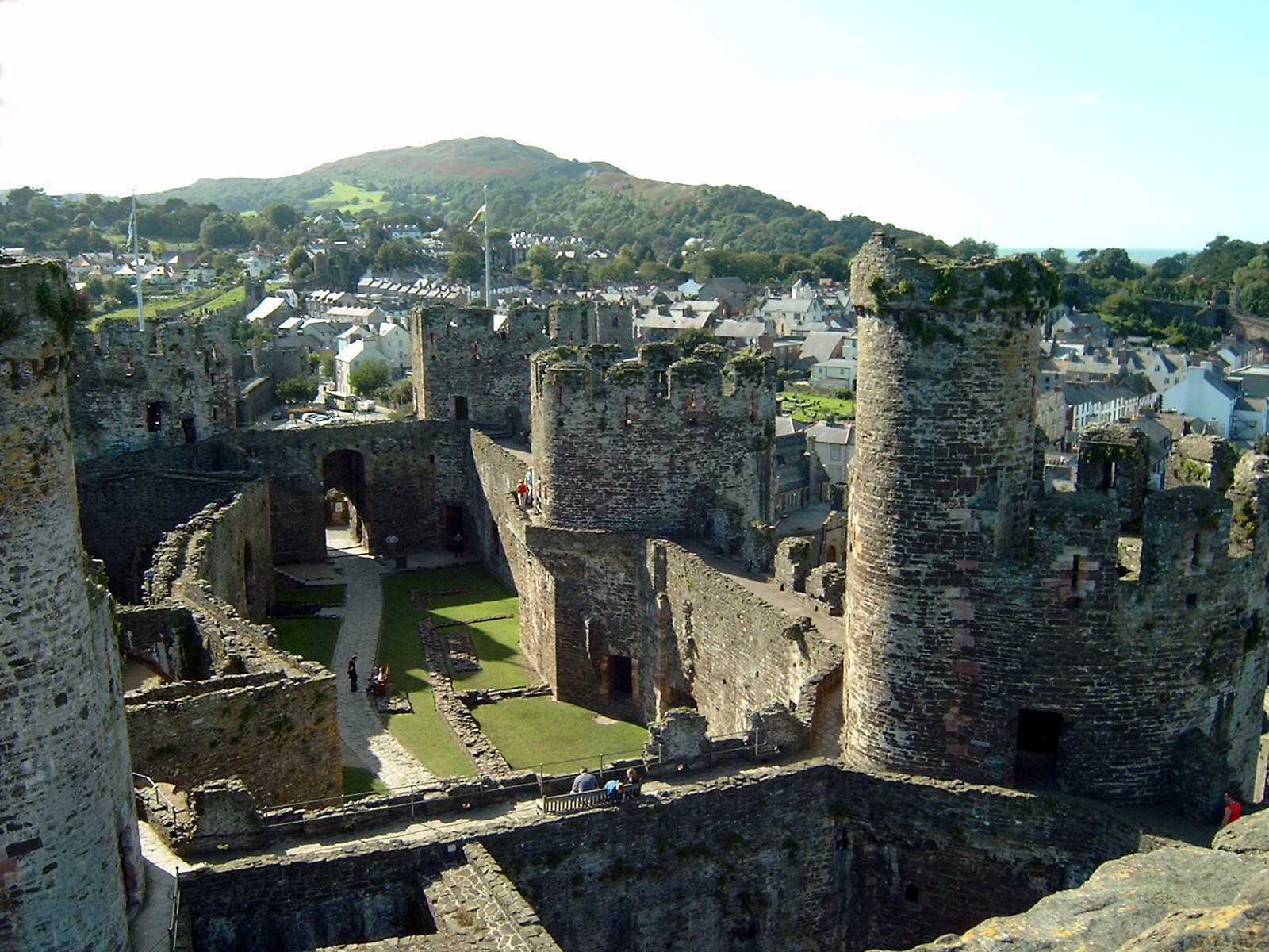 Conwy Castle, Wales, photo by Sarah Lionheart, taken in September 2004.